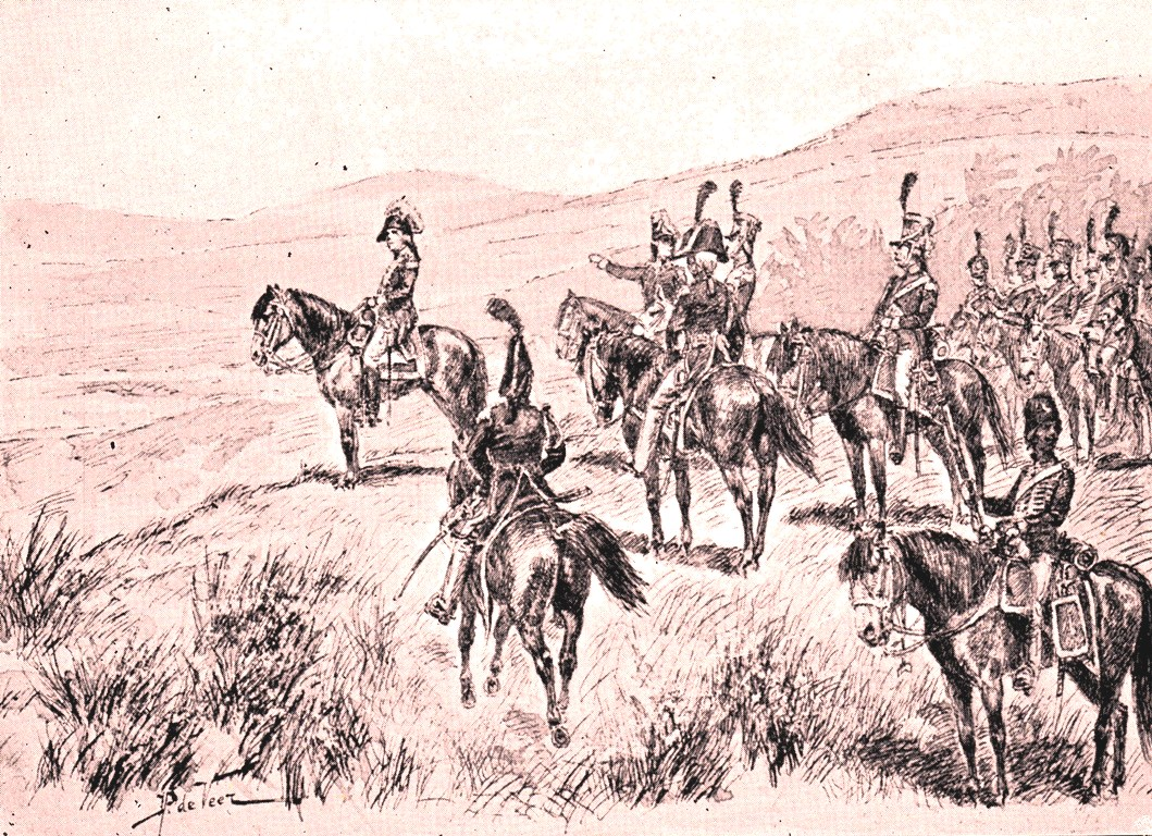 Daendels en zijn staf